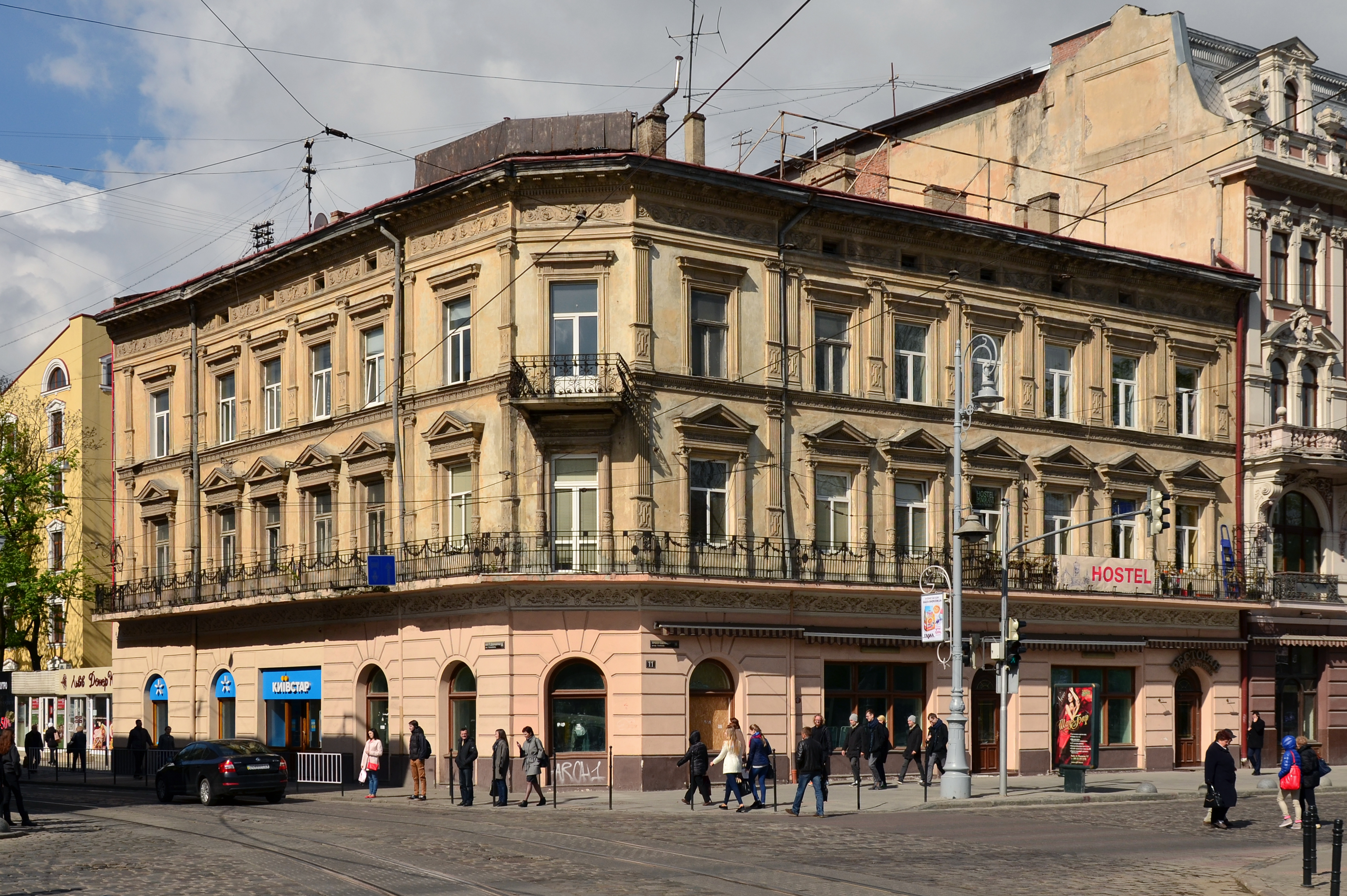 11 Prospekt Svobody, Lviv.